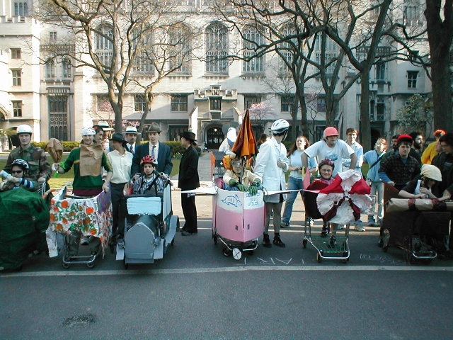 Qwazy Quad Rally: Wacky Races against Judges Dick Dastardly and Muttley. Scav 2005, item #38. Taken by uploader.